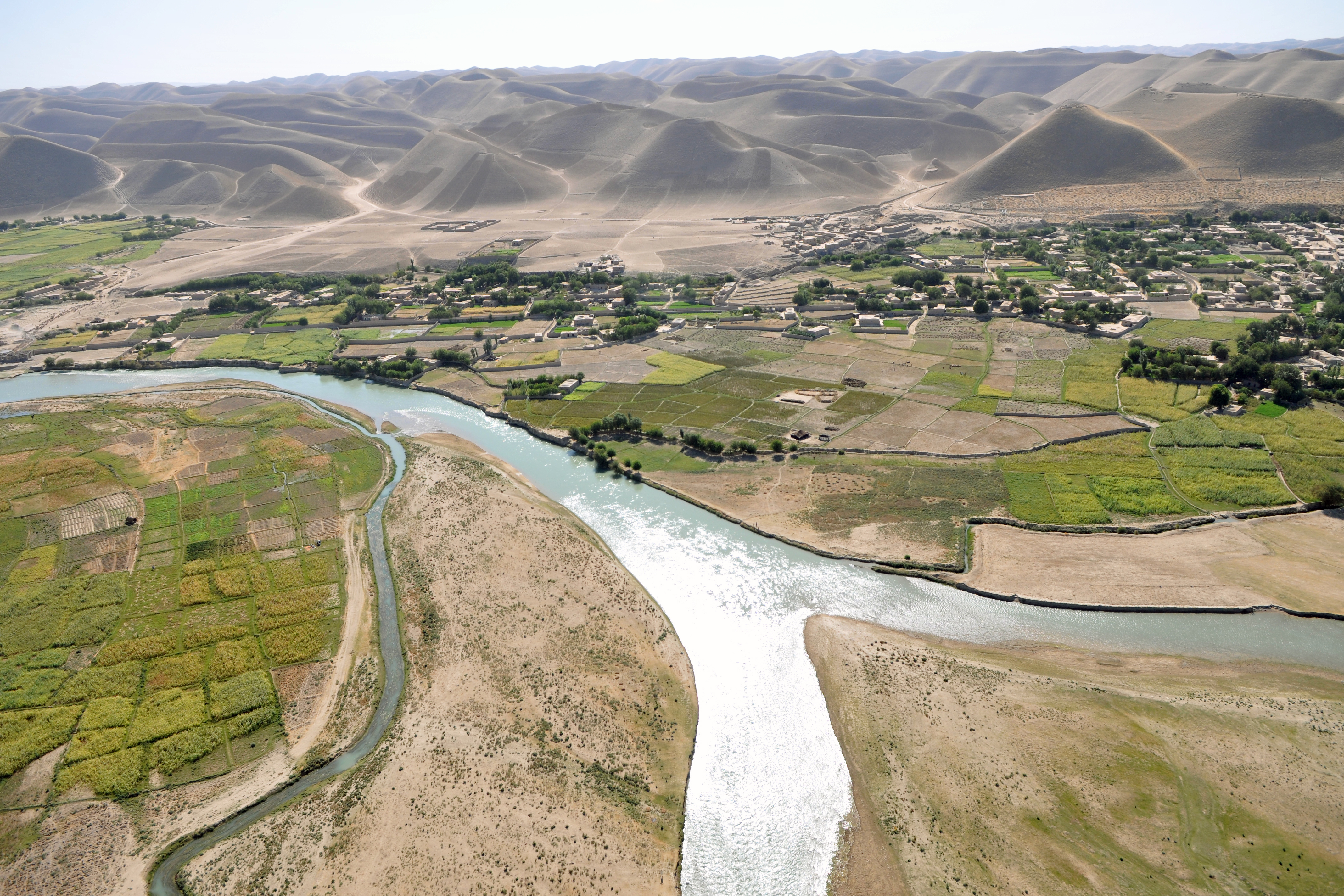 A scenic view from an Army UH-60 Black Hawk helicopter flying over Regional Command-West, Afghanistan, Sept. 19. (U.S. Air Force photo/Master Sgt. Michael O'Connor) (Released)